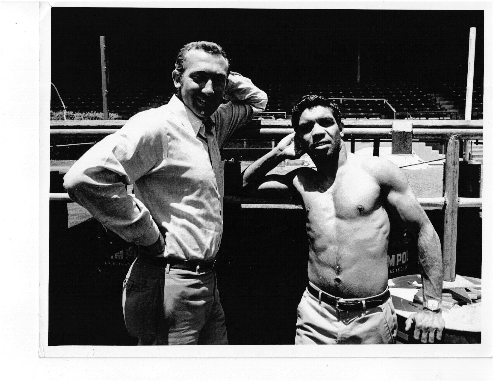 Rod Humphries with Lionel Rose. White City Tennis Stadium, Sydney, Australia.